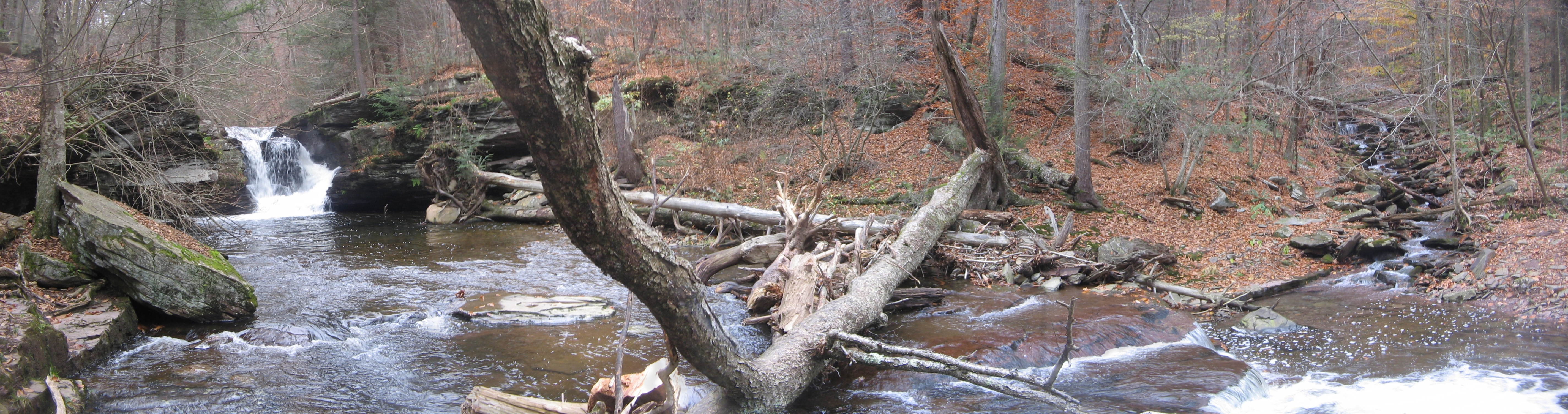 Murray Reynolds Falls (16 feet (4.9 m) tall) (left) on Kitchen Creek in Ricketts Glen State Park, Fairmount Township, Luzerne County, Pennsylvania, USA. Going north from Pennsylvania Route 118, Murray Reynolds Falls is the first of three named waterfalls on Kitchen Creek, south and downstream of Waters Meet. Murray Reynolds Falls is one of twenty two named waterfalls in the park, according to the Pennsylvania Department of Conservation and Natural Resources (DCNR). Shingle Cabin Falls (25 feet (7.6 m) tall) (partially visible at right) on Shingle Cabin Branch, a tributary of Kitchen Creek. The name Shingle Cabin Falls is from the book "Pennsylvania Waterfalls: a guide for hikers and photographers" by Scott E. Brownh, but this is not one of twenty two named waterfalls in the park, according to the DCNR.